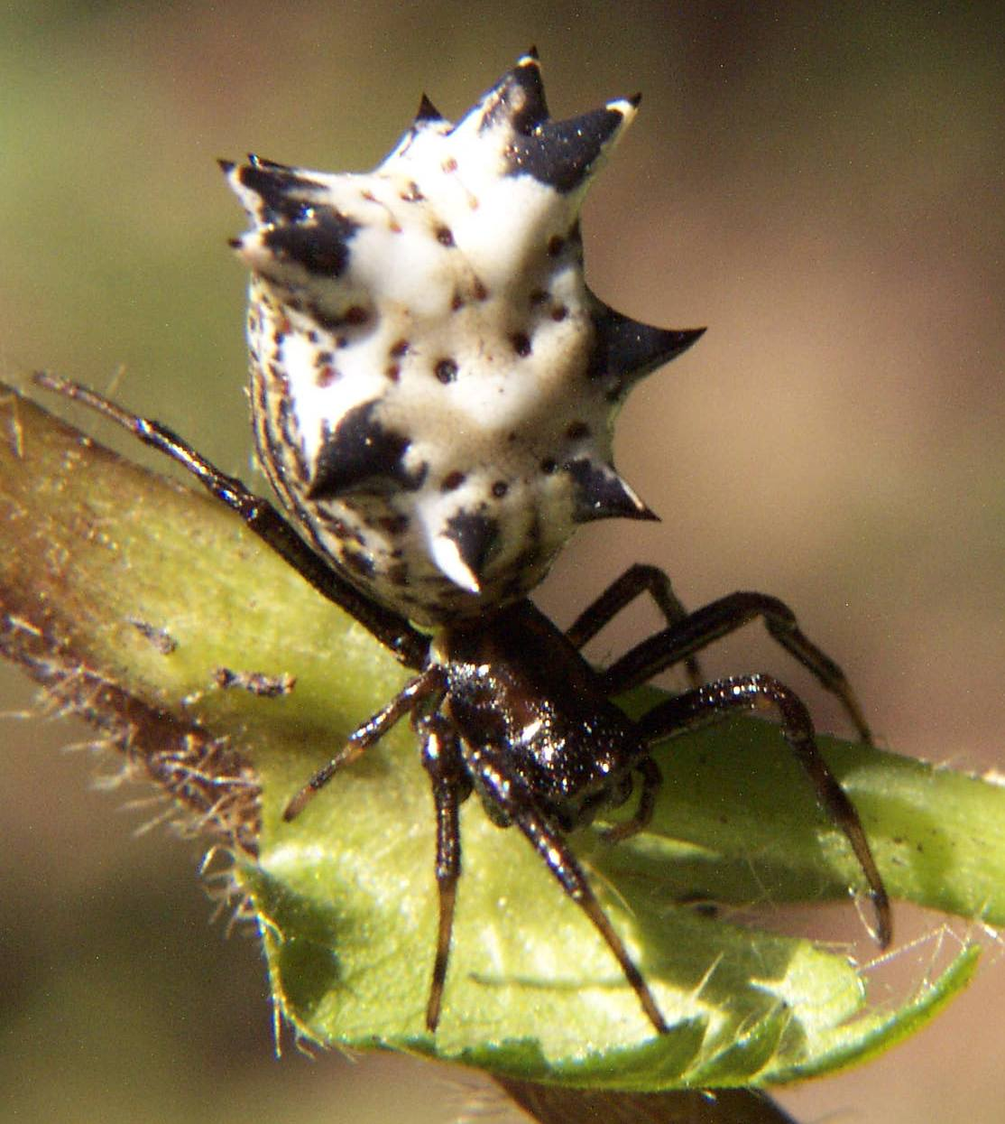 Adult female orb-weaver spider Micrathena gracilis. Commonly called "spined micrathena".